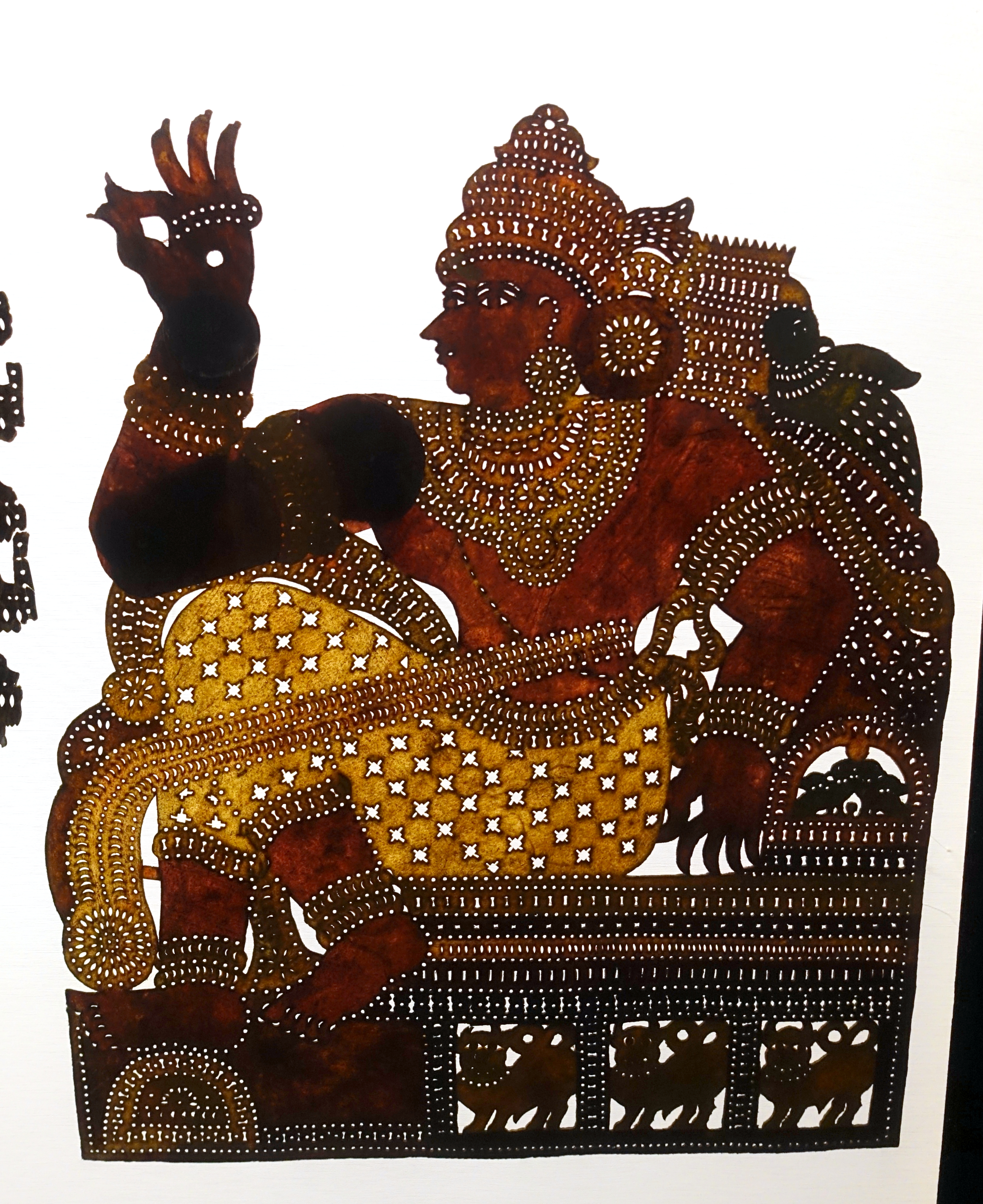 Exhibit in the Museu do Oriente - Lisbon, Portugal. This work is old enough so that it is in the public domain.